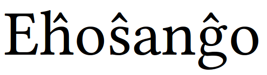 H-circumflex, a letter of the Esperanto alphabet with the hat on the knee